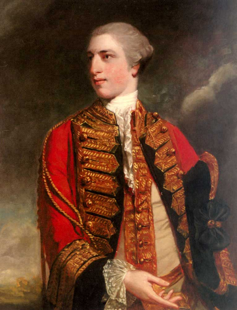 "Portrait of Charles Fitzroy, 1st Baron Southampton (1737-1797)". Image courtesy of The Athenaeum.